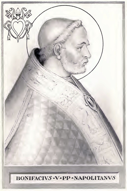 This illustration is from The Lives and Times of the Popes by Chevalier Artaud de Montor, New York: The Catholic Publication Society of America, 1911. It was originally published in 1842.